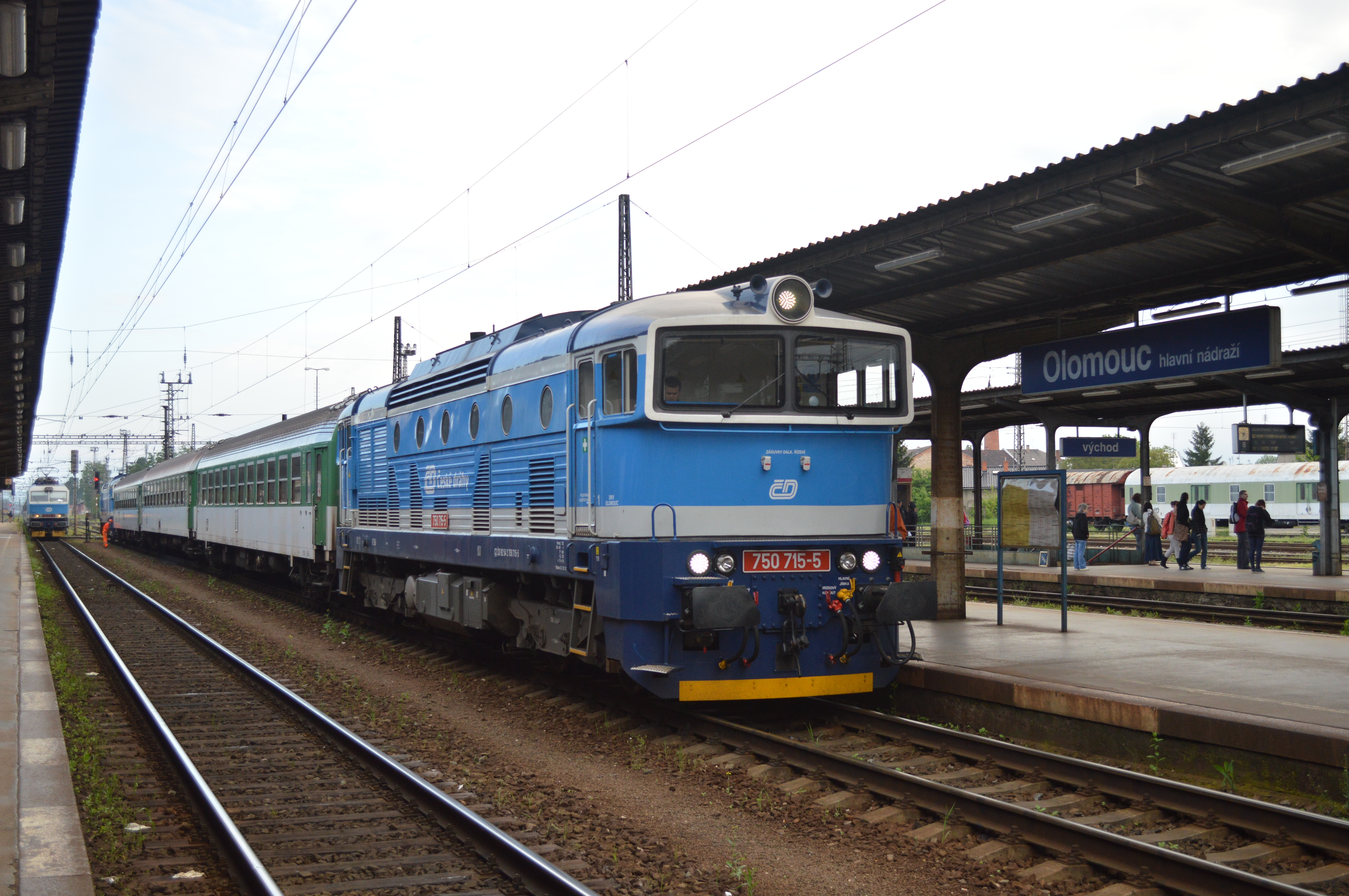 2013 Czech Republic Trip Day Three Train Os3624, 05:31 Šumperk to Olomouc hl.n. seen at the end of its journey on 13 May 2013 having been hauled by 750.715. Seen sporting the most up to date livery for České Dráhy, 19 class 750s were re-built for passenger use and renumbered into the 750.7 sub class.